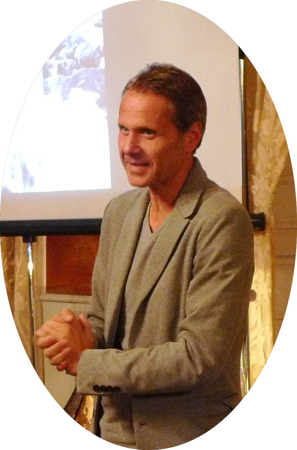 Michael Schindhelm, reading Dubai Speed, 4.11.2009, Solothurn (CH)